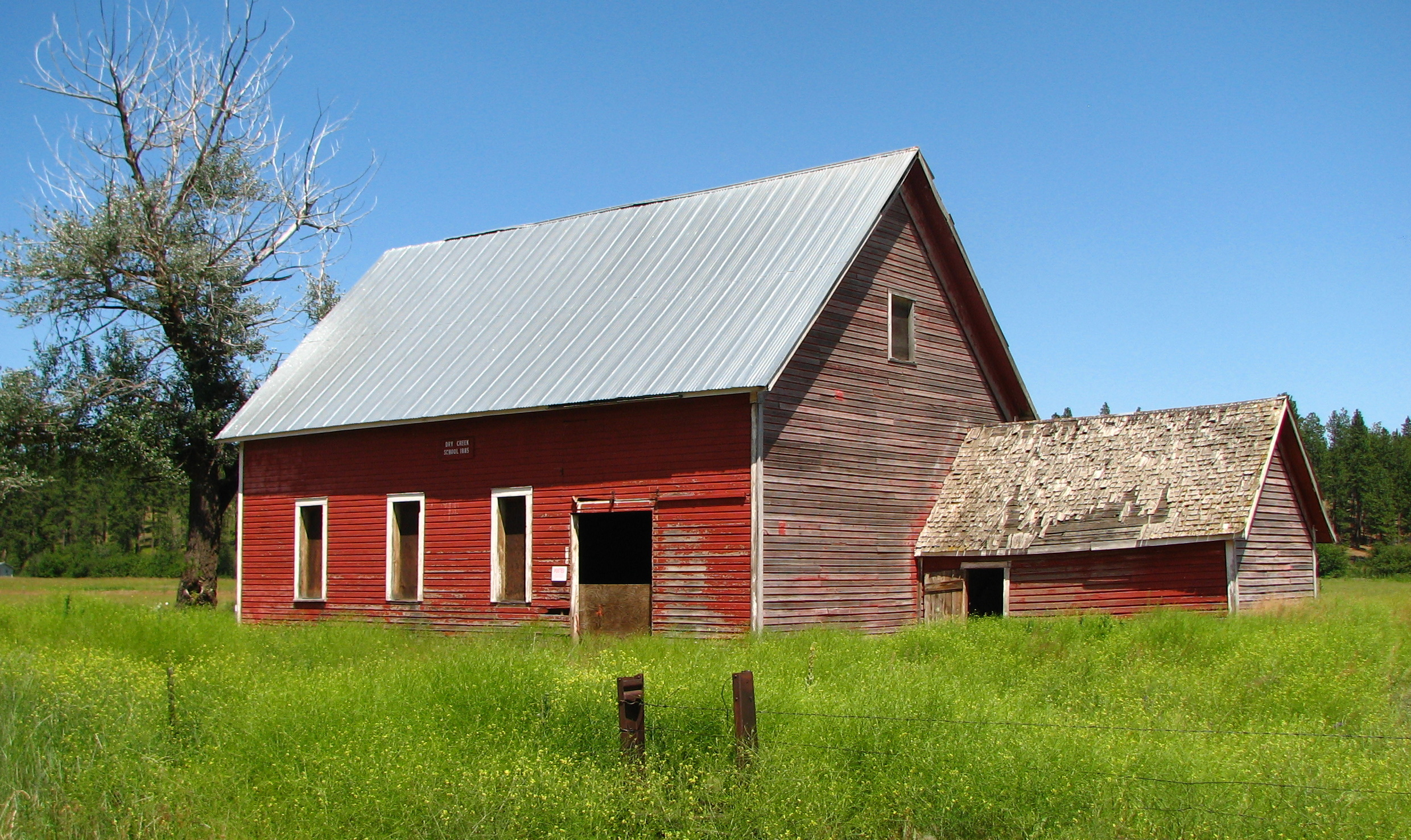 The historic Dry Creek School (built 1885), located at 69281 Summerville Road near Summerville, Oregon, United States, is listed on the US National Register of Historic Places.